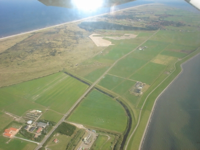 airpicture ameland